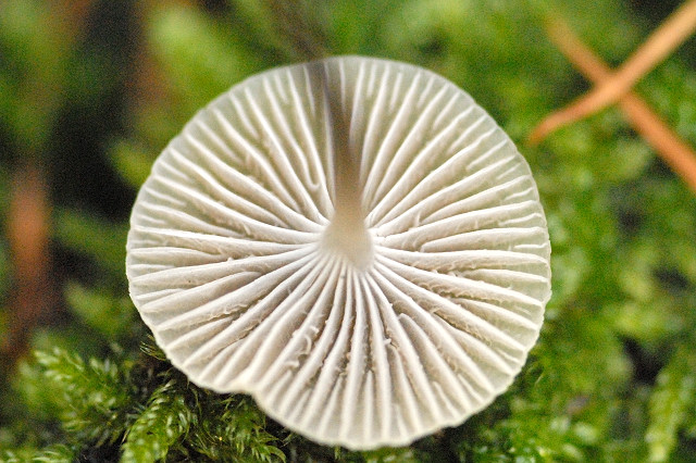 Mycena spec. from Commanster, Belgium. The determination of the species shown in this picture has been verified.